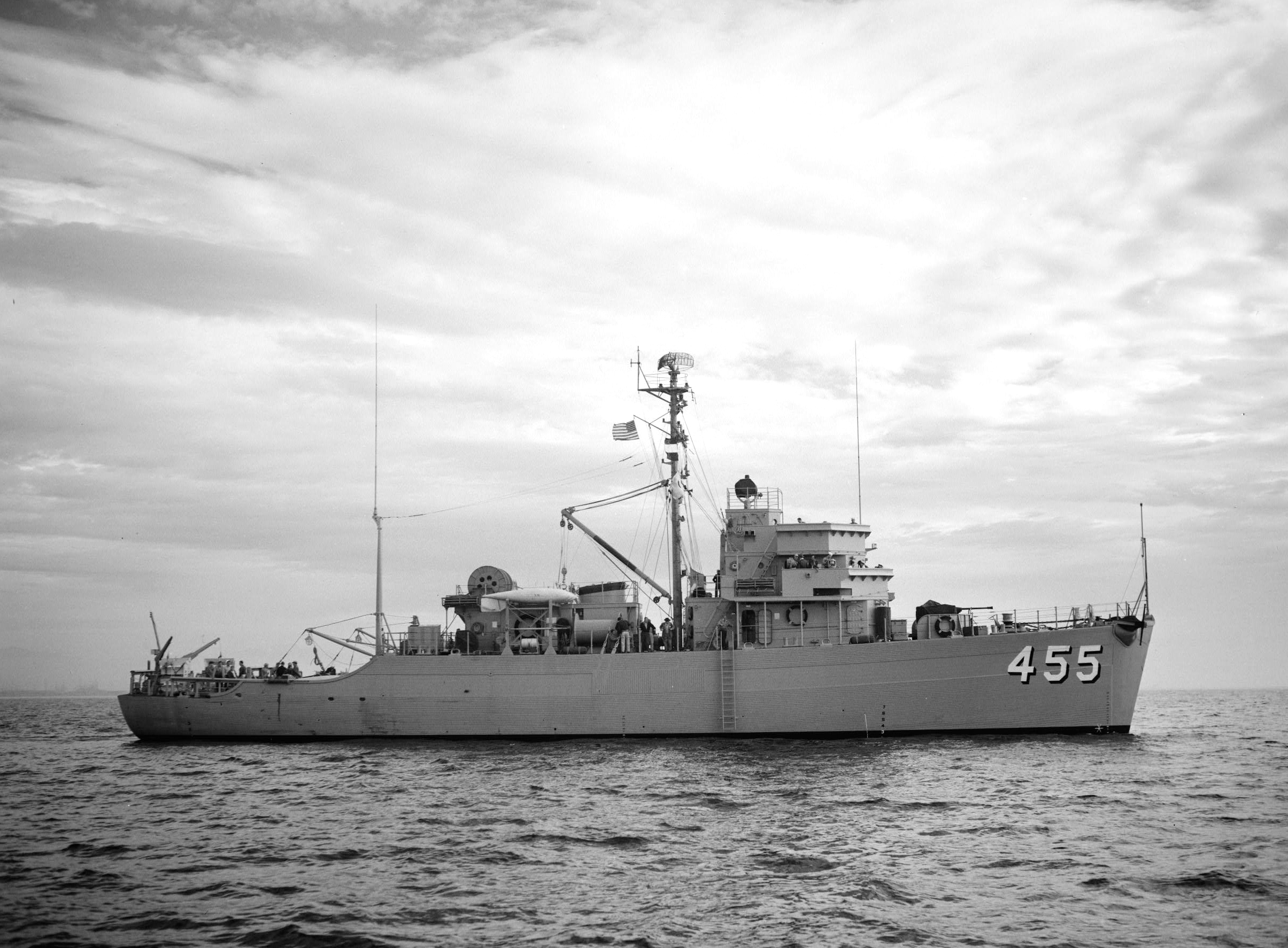 The U.S. Navy minesweeper USS Implicit (MSO-455) underway, in January 1954.